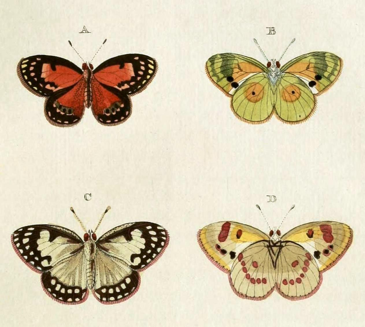 Colotis amata ♂ upper and underside ♀ upper and underside A, B (♂), C, D (♀): "(Papilio) Calaïs" ( = Colotis amata calais (Cramer, [1775])), see Funet or Colotis amata modestus (Butler, 1876) (Talbot, 1939; as subspecies of C. calais Cramer), see Chainey (2005) p. 316. Photos at Barcode of Life. Female also on pl. 53 C, D.